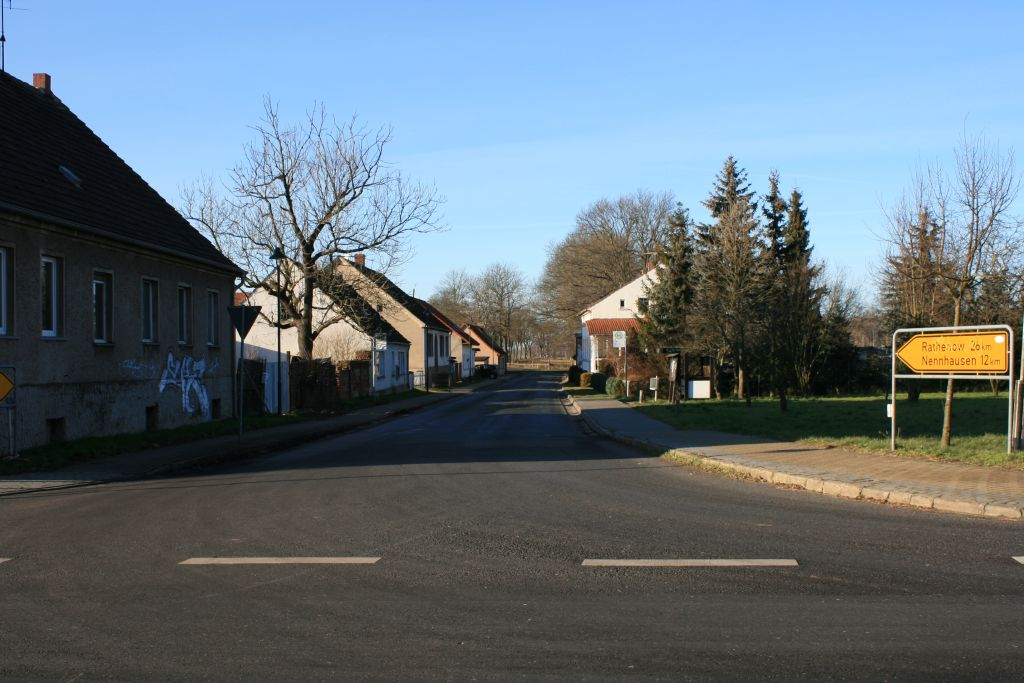 Möthlow in Brandenburg, Germany